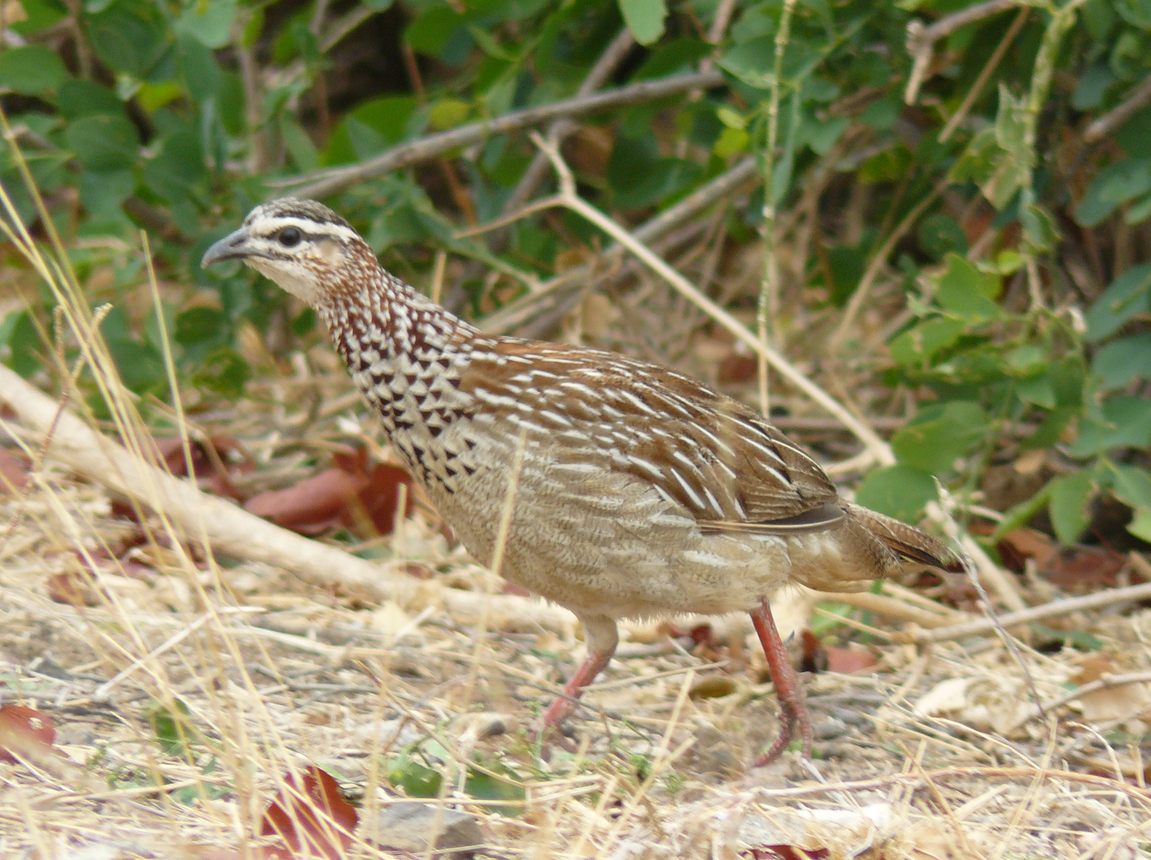 Crested Francolin (German: Schopffrankolin) Dendroperdix sephaena at Kruger National Park